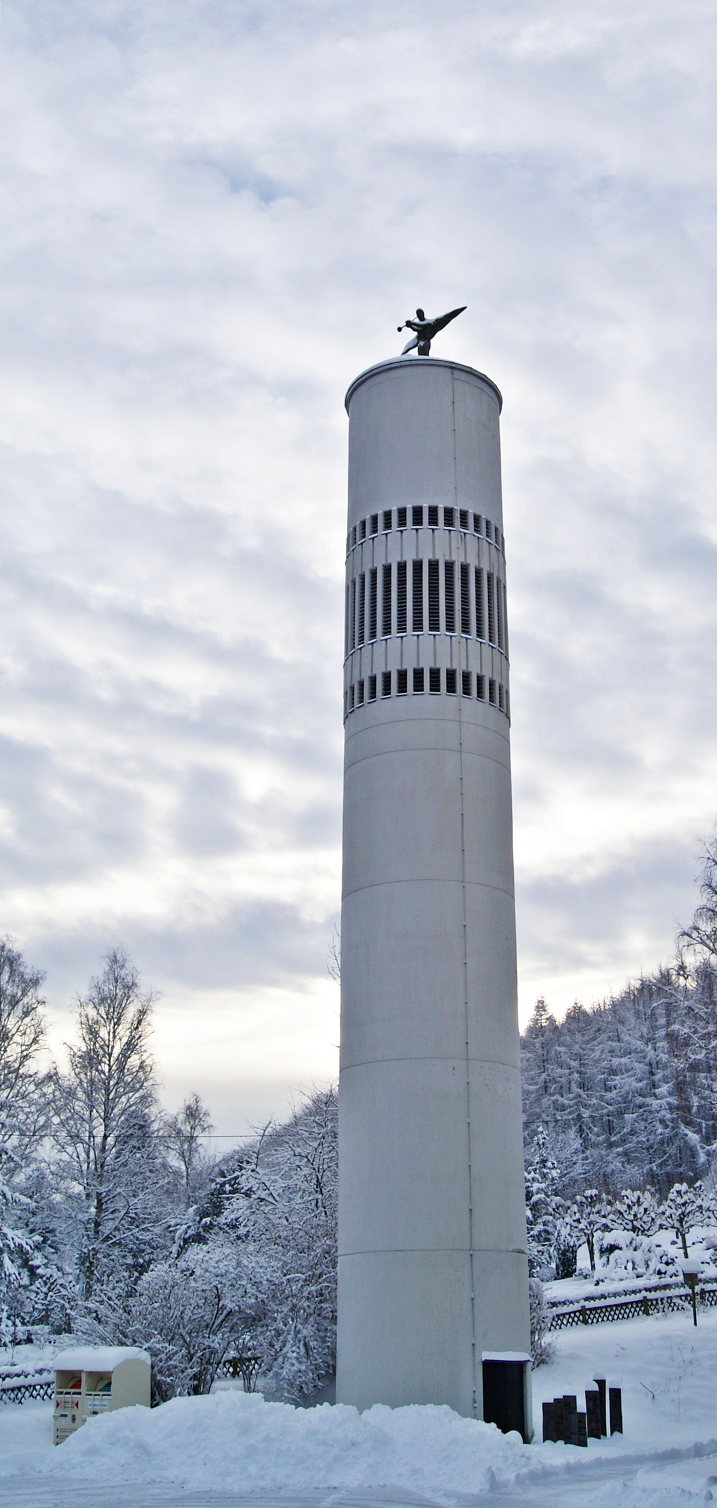 Angel on the top of the catholic church bell tower of Freudenberg (North Rhine-Westphalia, Germany).